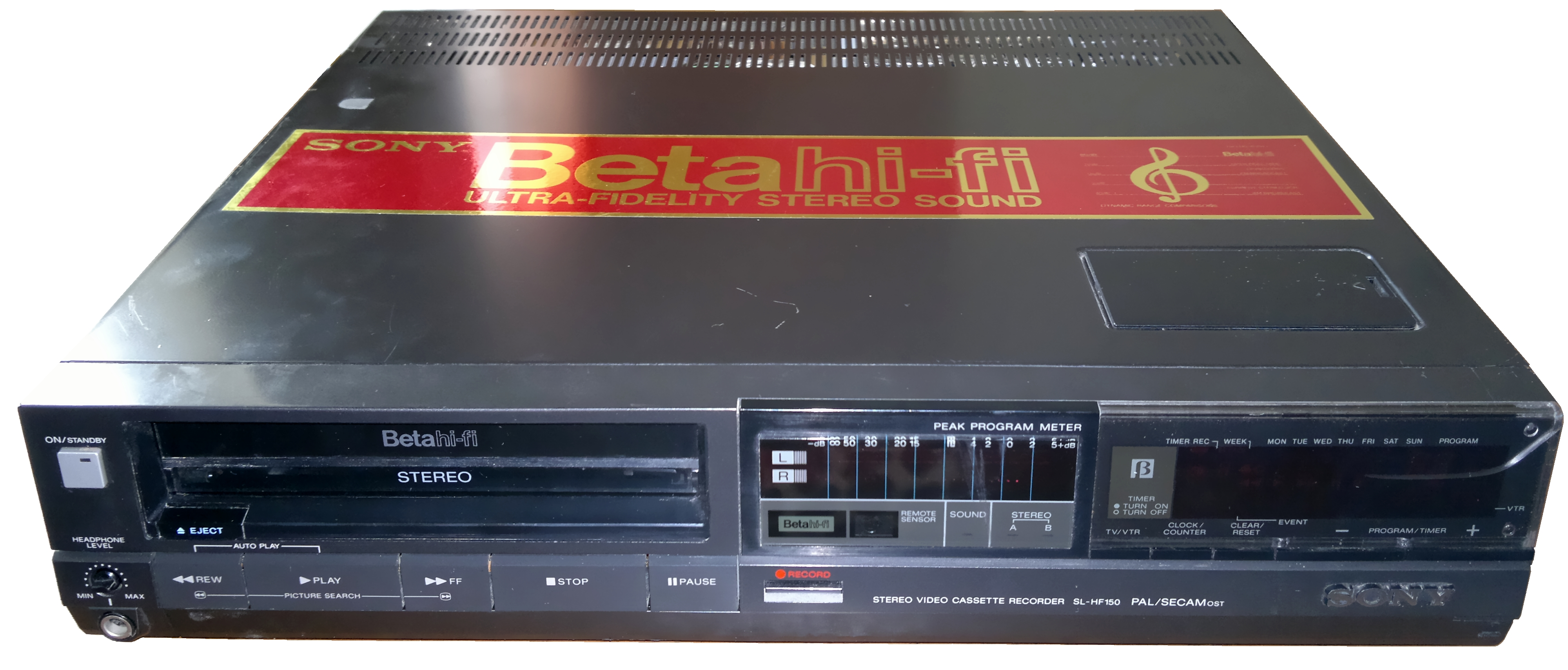 Sony Betamax SL-HF150 from 1985. It's at least one of the early Beta Hi-Fi machines. Is similar to Sony Beta model SL-HF77, which is SuperBeta one with also Hi-Fi sound. Front view of exterior of the Betamax VCR. Interior concealed by the cover.